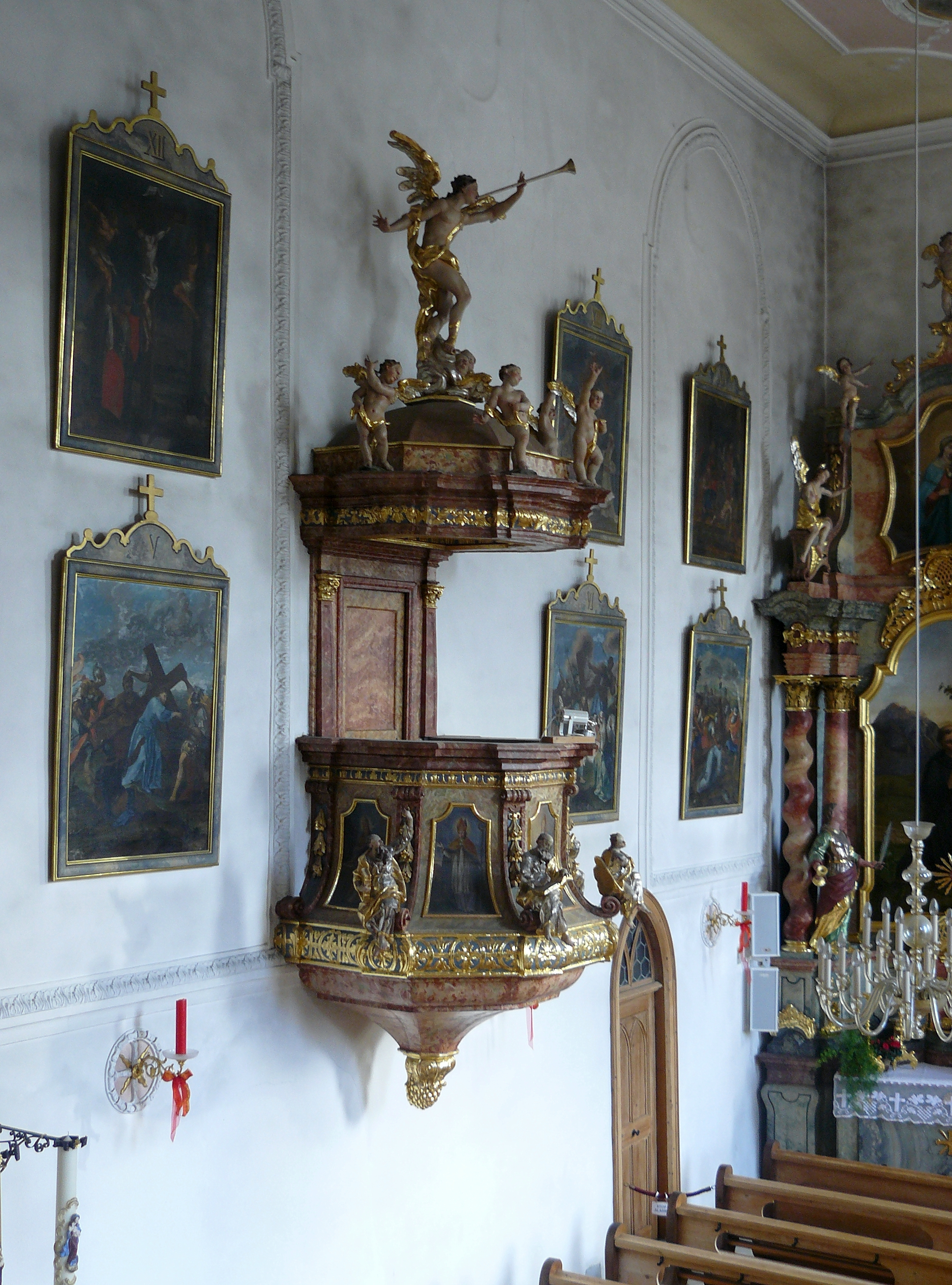 Pulpit of St Maria and Florian, Schwangau-Waltenhofen